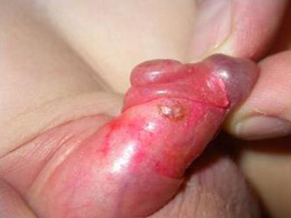 Multiple pyogenic granuloma of the penis, dorsal view.